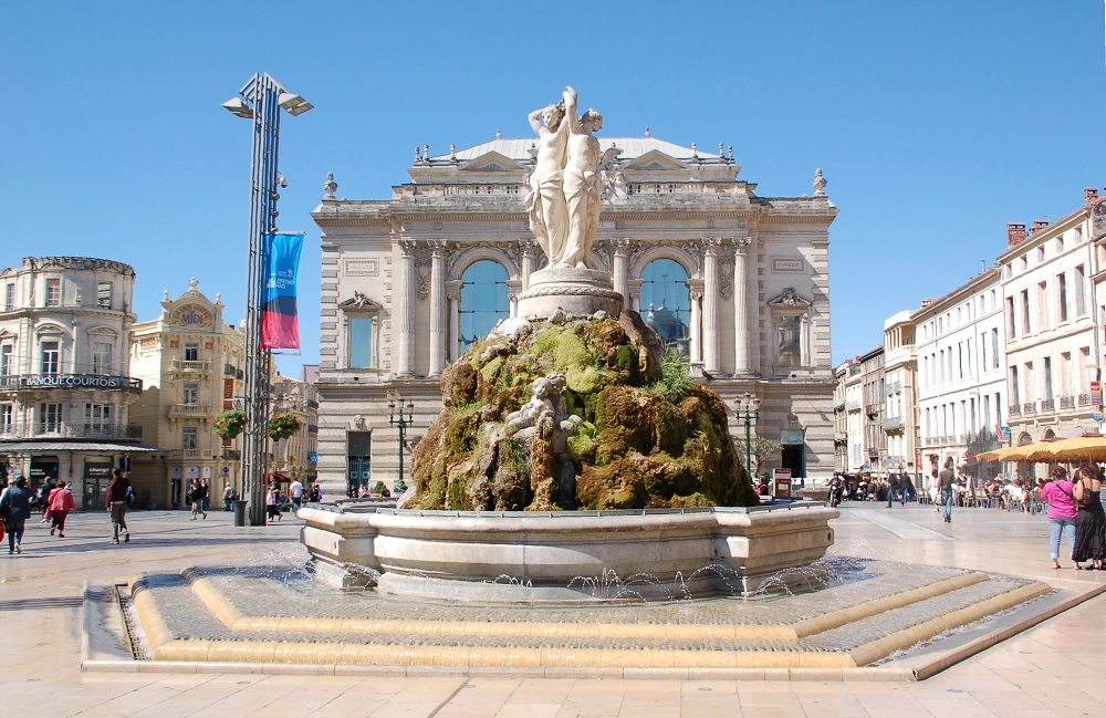 Fountain in front of the Opera, Montpellier, Languedoc-Roussillon, France